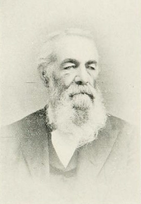 Augustus P. Hunton, Speaker of the Vermont House of Representatives